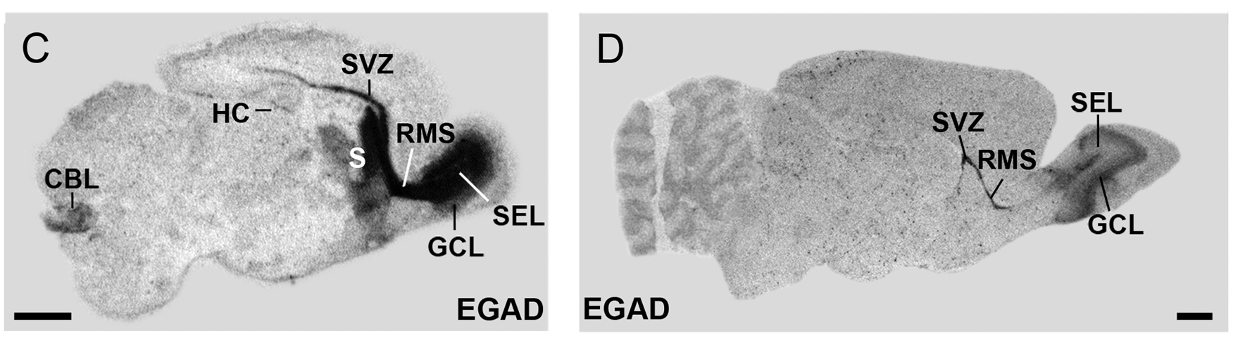 Figure 2 Distribution of GAD67 splice variants in rat brain at P1 (left panels) and P90 (right panels). GAD67 mRNA (A, B) and embryonic transcripts (EGAD; C–G) were detected using radioactive in situ hybridization. Autoradiographic film images of saggital sections showed a predominant expression of GAD67 mRNA in the olfactory bulb (OB) at both ages (A, B) and a moderate expression in the cerebellum at P90 (B). Intense labeling of embryonic messages was found in the subventricular zone (SVZ; C, E) and the olfactory bulb at P1 (C). The expression persisted until adulthood [D, F, G (enlarged SVZ from emulsion autoradiography)]. Sense probe for embryonic GAD67 mRNA was used as a negative control (H, I). Black spot in H displays an artefact. CBL – cerebellum; GCL – granule cell layer; HC – hippocampus; OB – olfactory bulb; PGL – periglomerular layer; RMS – rostral migratory stream; RT – reticular thalamic nucleus; S – striatum; SEL – subependymal layer; SVZ – subventricular zone. Scale bar A–F, I, H: 2 mm; G: 100 µm. PLoS ONE. 2009; 4(2): e4371. Published online 2009 February 3. Copyright Popp et al. This is an open-access article distributed under the terms of the Creative Commons Attribution License, which permits unrestricted use, distribution, and reproduction in any medium, provided the original author and source are credited.